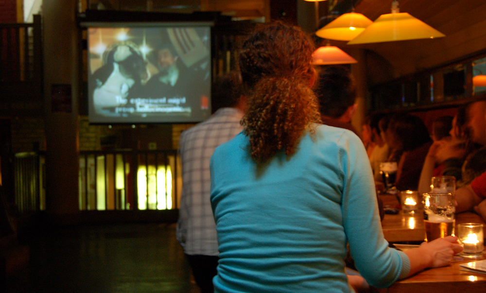 polish comedy movie Seksmisja in pub Pravda in Dublin